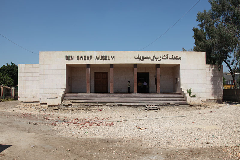 Entrance of the museum, Beni Suef, Egypt